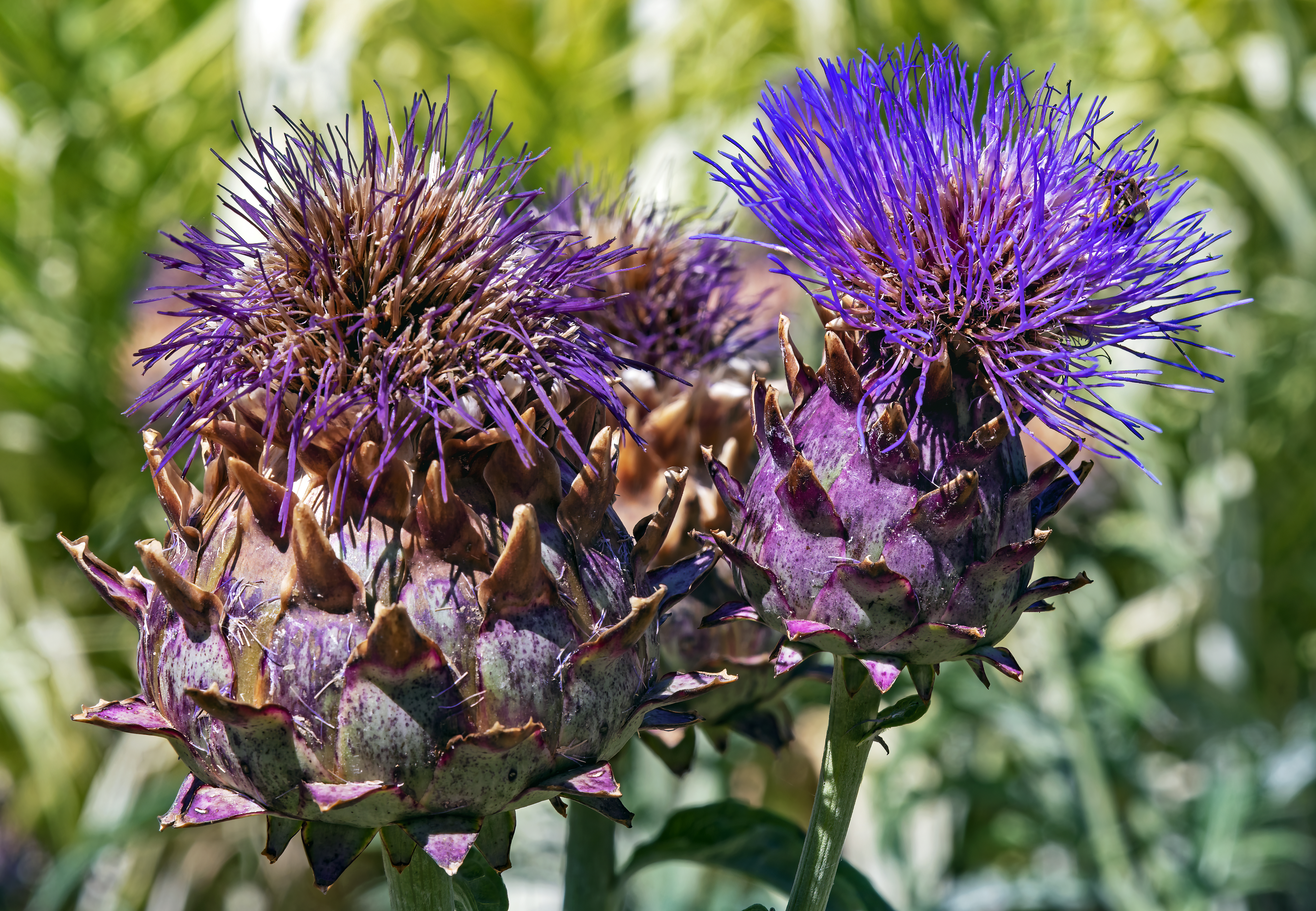 Cynara cardunculus - head with flower in bloom